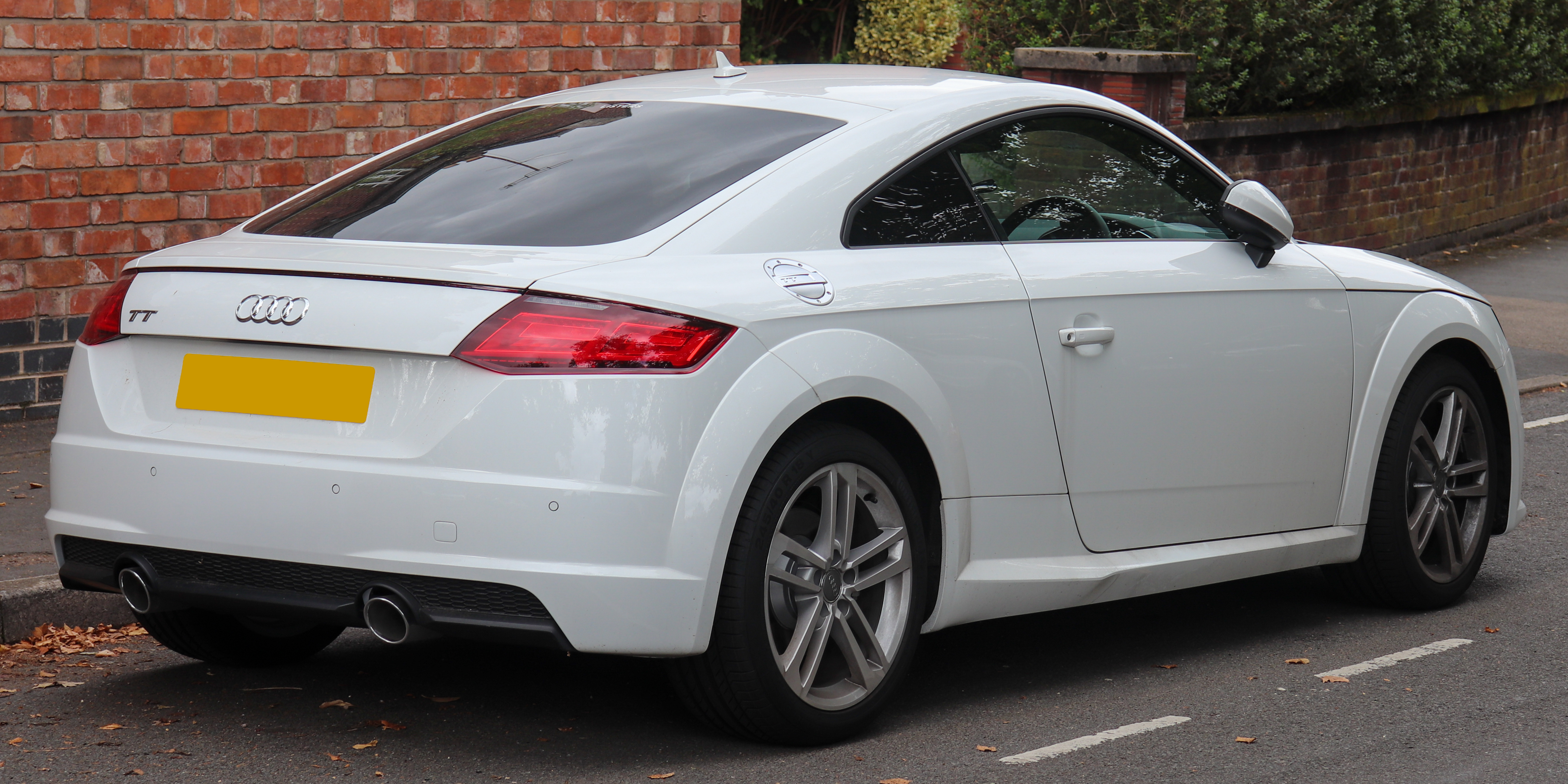 2019 Audi TT Sport 40 TFSi S-A 2.0 Rear Taken in Leamington Spa